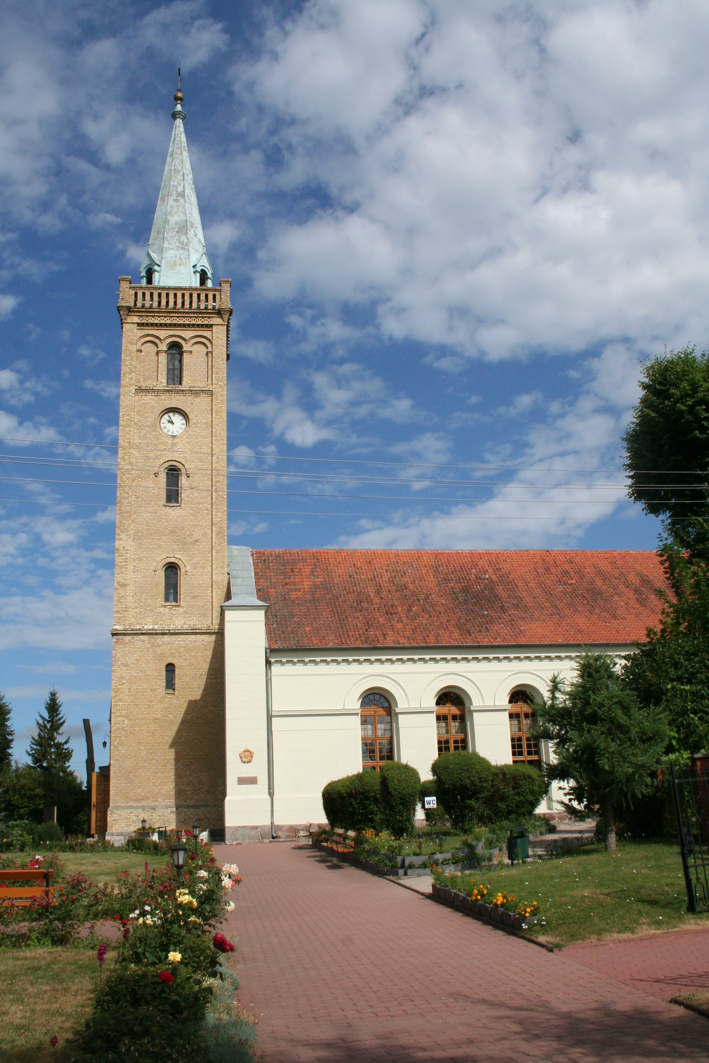 Holy Trinity church in Mikołajki